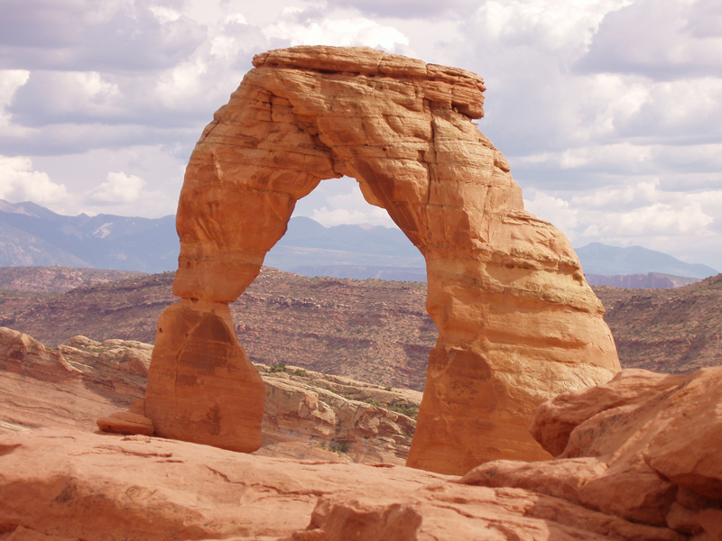 Delicate Arch, Arches National Park, Utah/USA